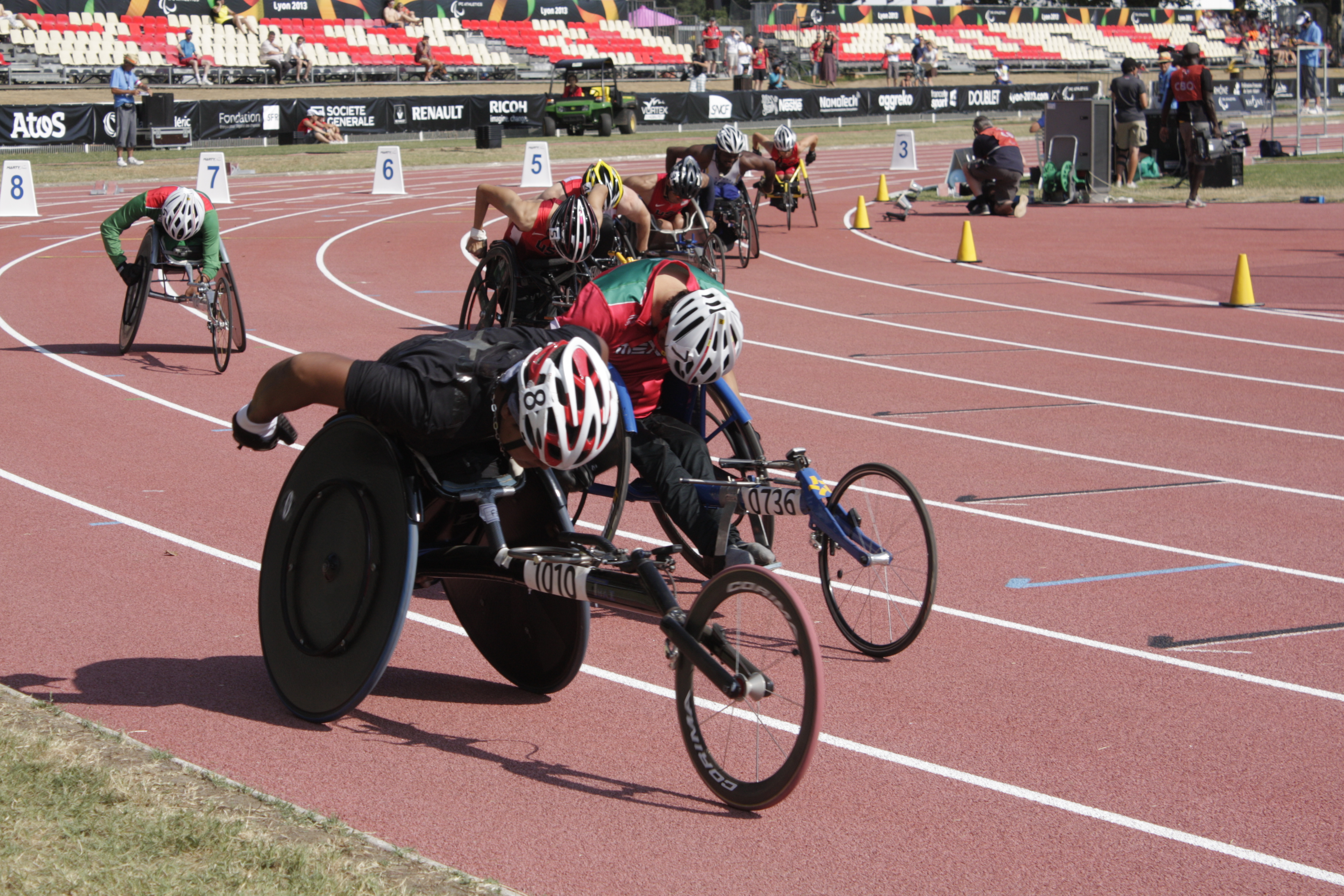 2013 IPC Athletics World Championships. T52 200m final. Lane 8: Peth Rungsri (Thailand), Lane 7: Salvador Hernandez (Mexico), Lane 6: Leonardo Perez (Mexico), Lane 5 Raymond Martin (USA), Lane 4: Beat Boesch (Switzerland), Lane 3: Gianfranco Iannotto (USA), Lane 2:Marcos Castillo (Venezuela), Lane 1: Isaiah Rigo (USA)